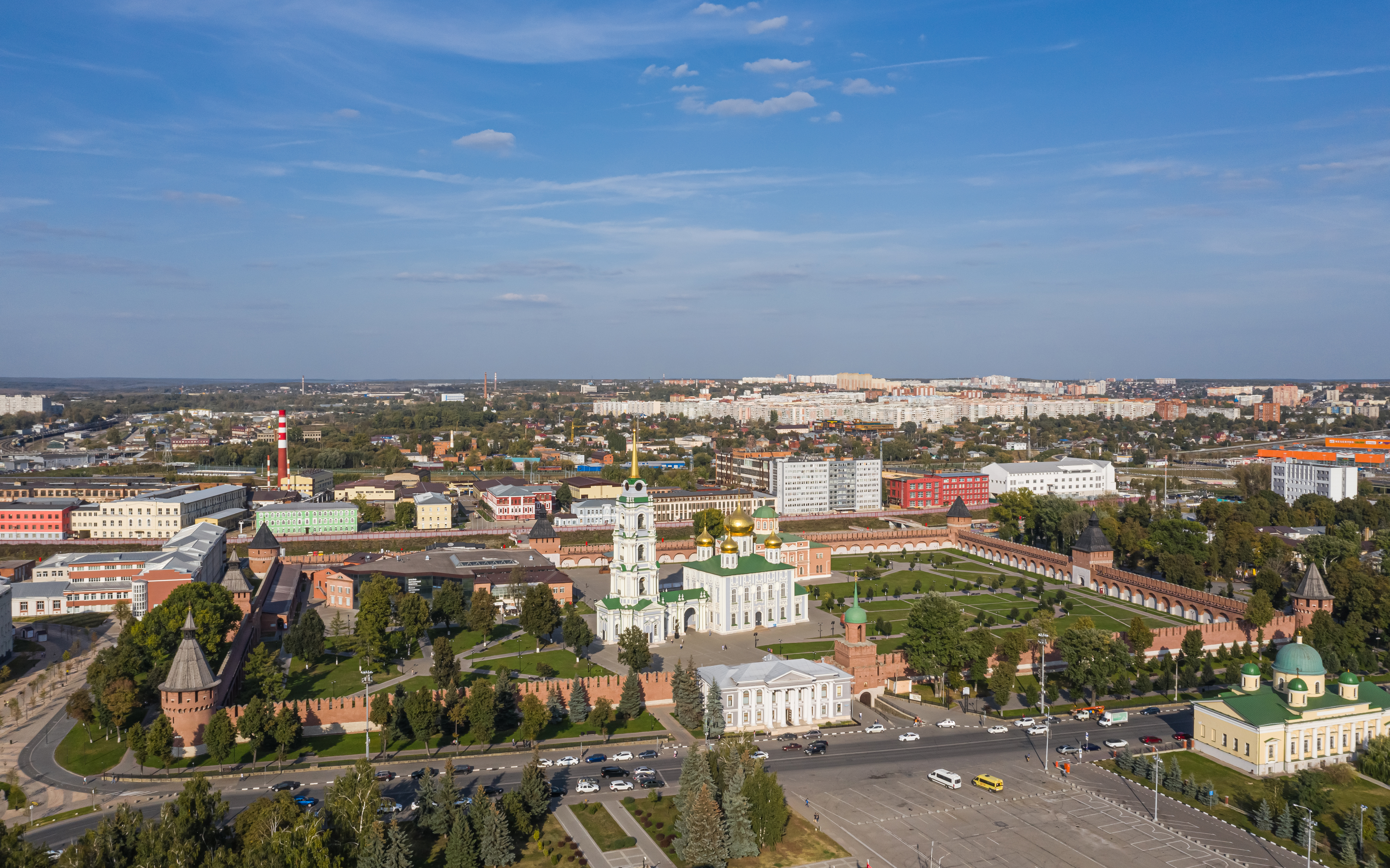 Aerial photo of the Kremlin in Tula, Russia